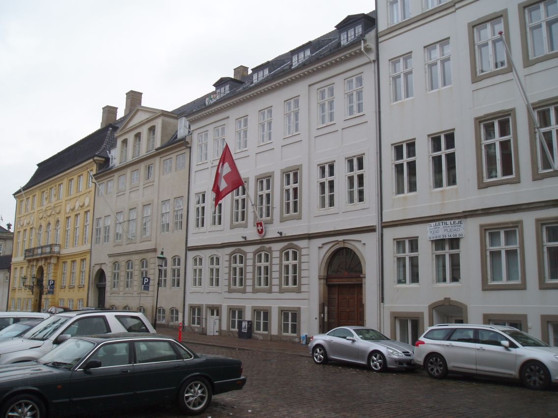 The swiss embassy in Copenhagen.